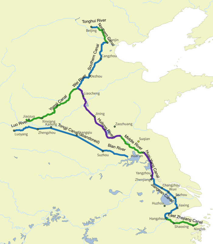 Courses of Grand Canal of China. Including Tonghui River, Northern Canal, Southern Canal, Huitong Canal, Yongji Canal, Tongji Canal, Middle River, Huai-Yang Canal, Jiangnan Canal, and East Zhejiang Canal.